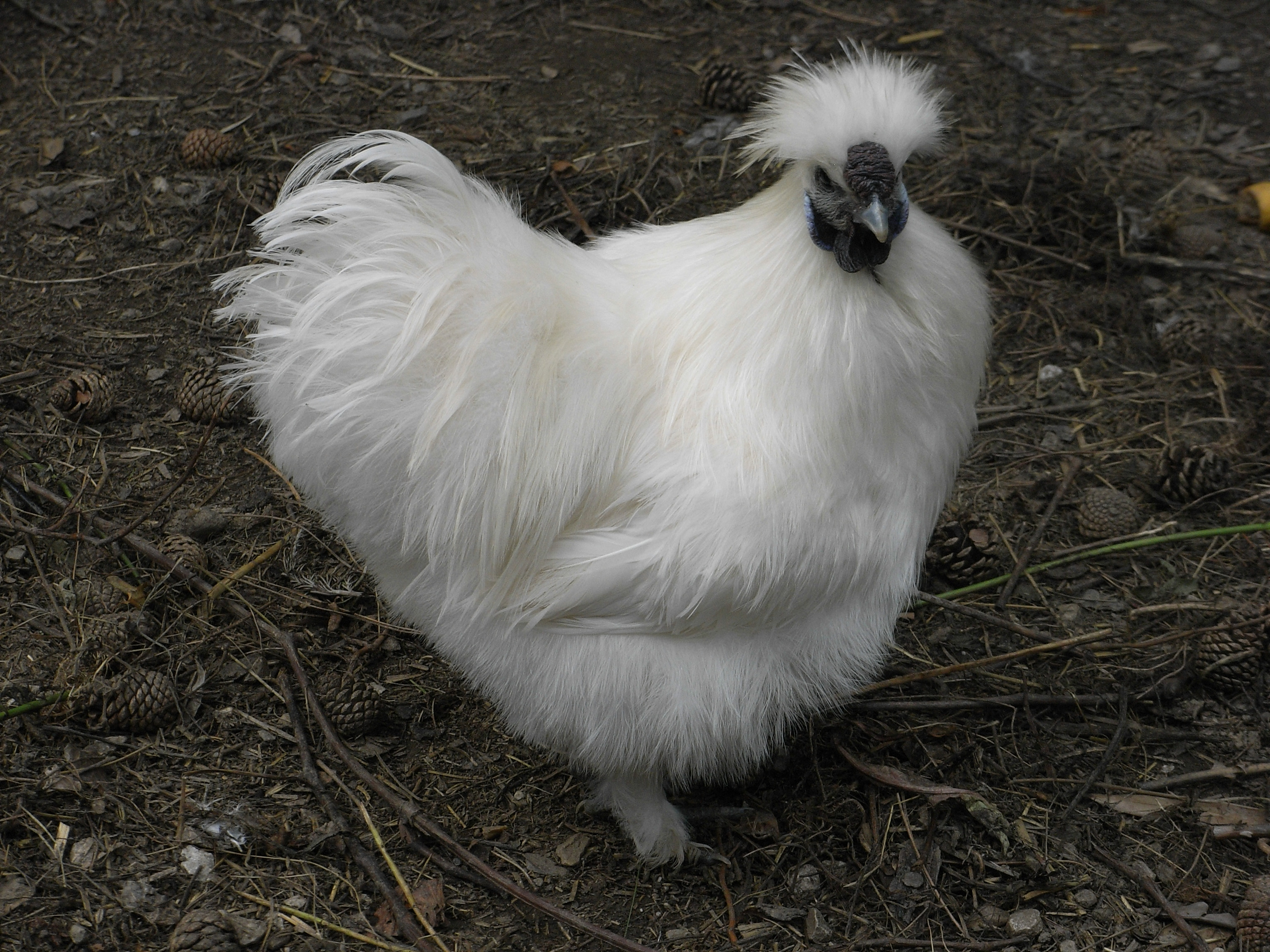 Silkie in Styria at Töchterlehof.